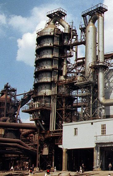 Scrubber. It is using for wet cleaning of blast furnace gas.